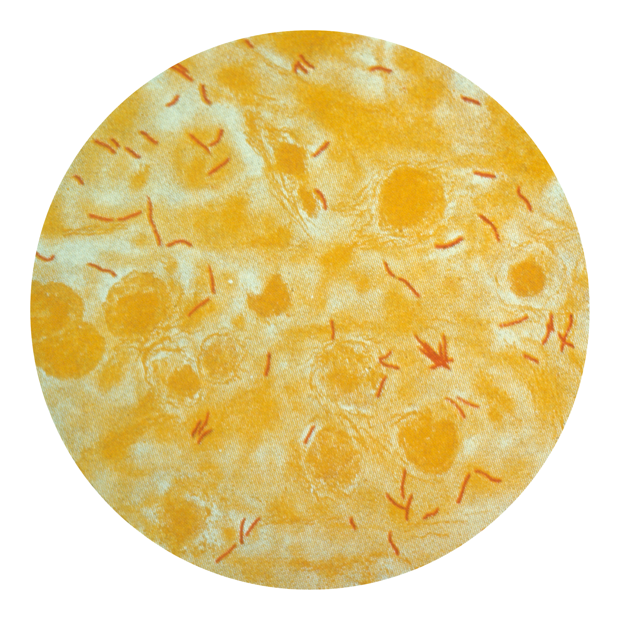 Photomicrograph of a sputum sample containing Mycobacterium tuberculosis. M. tuberculosis bacteria can attack any part of the body, but usually the lungs causing Tuberculosis. It is spread when infected individuals cough or sneeze, releasing microdroplets into the air that contain the bacteria, which others then inhale.